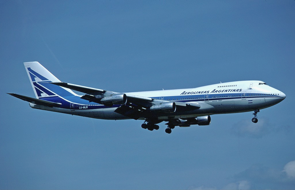 An Aerolíneas Argentinas Boeing 747-287B at Zurich Airport (ZRH / LSZH)